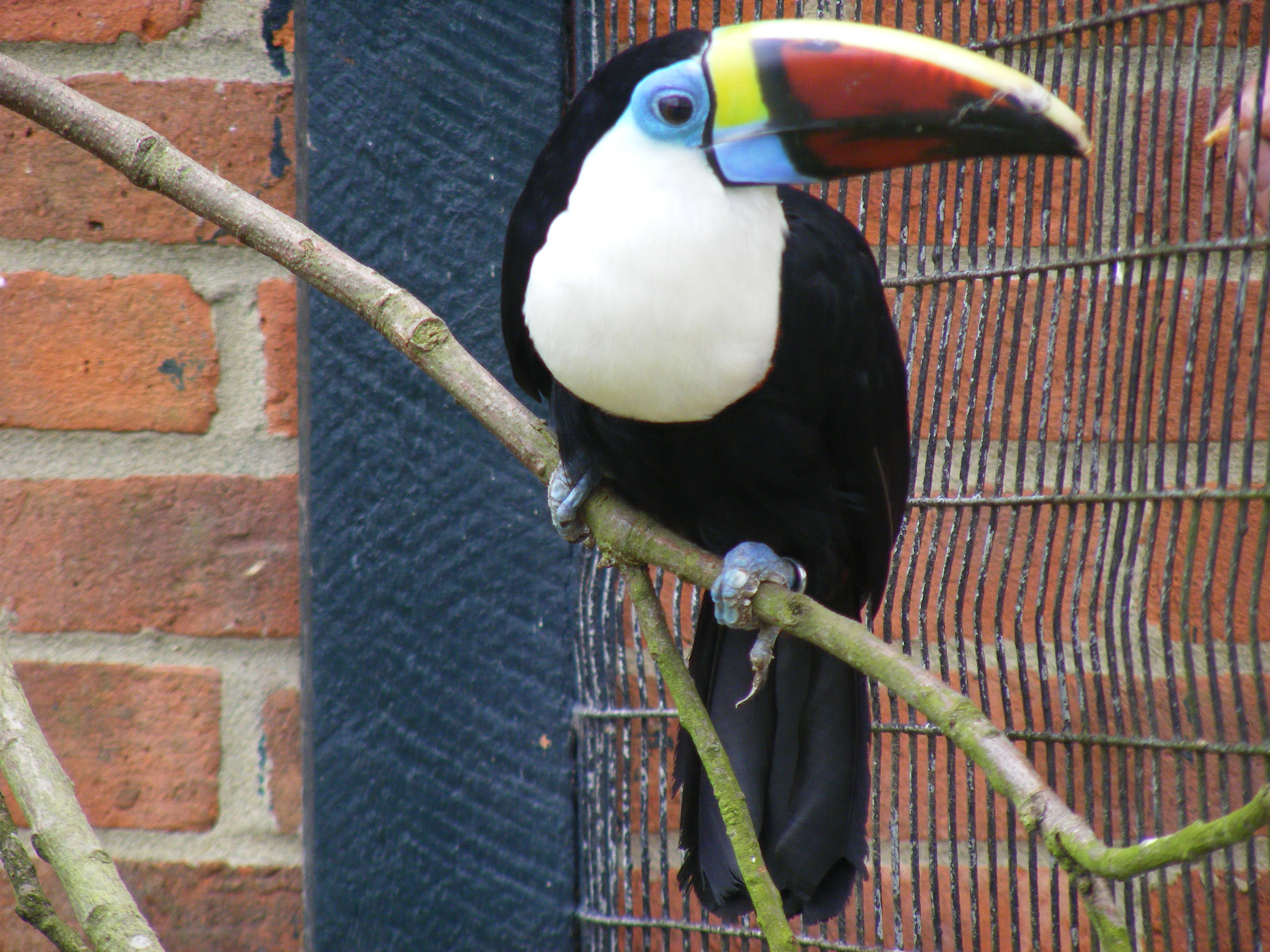 Ramphastos tucanus inca